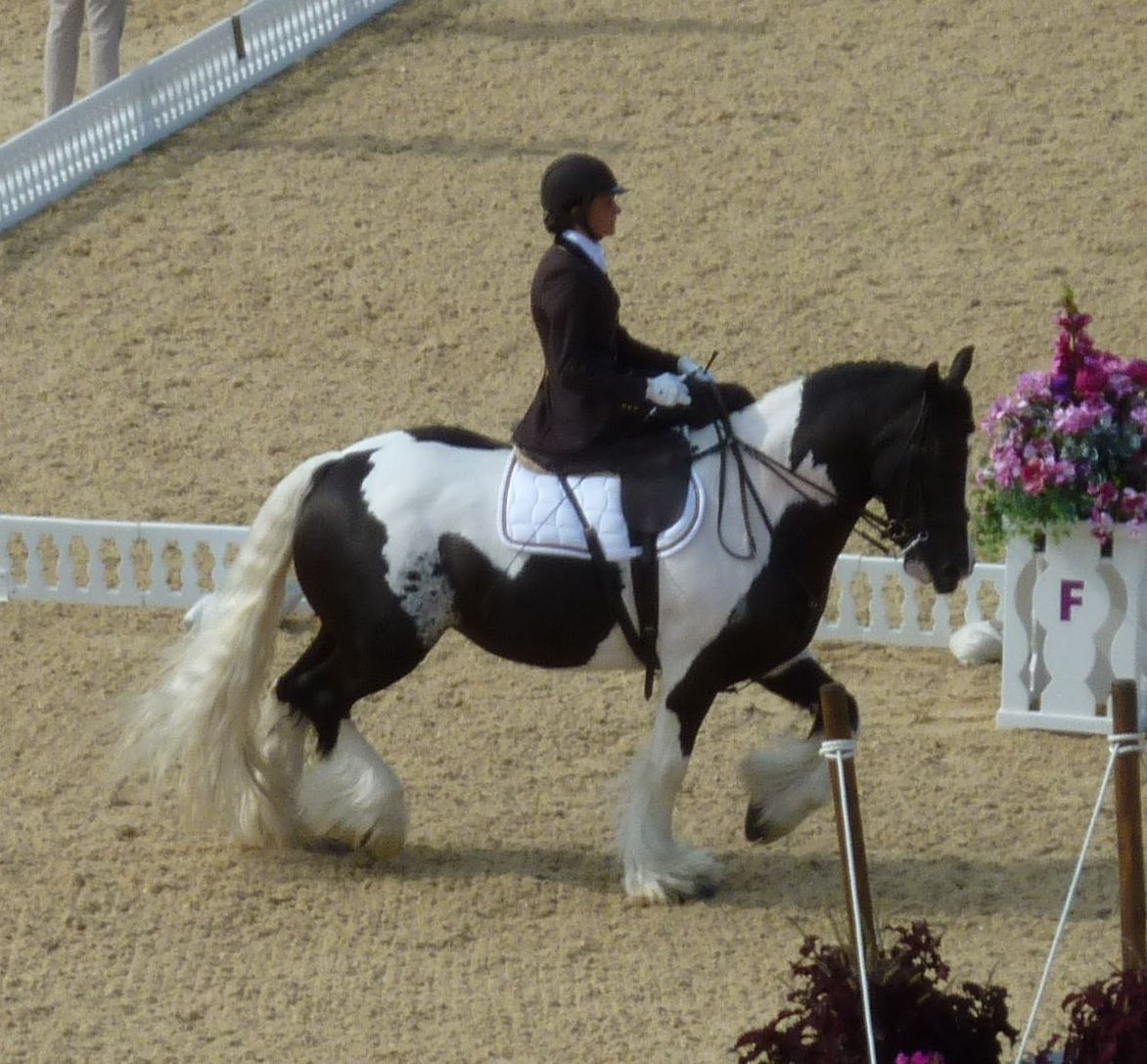 Barilla and Barbara Minneci competing at the 2012 Summer Paralympics